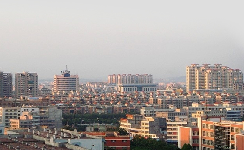 A view of Guangda Area in Urban of Puning, taken at Lianhuashan Hill